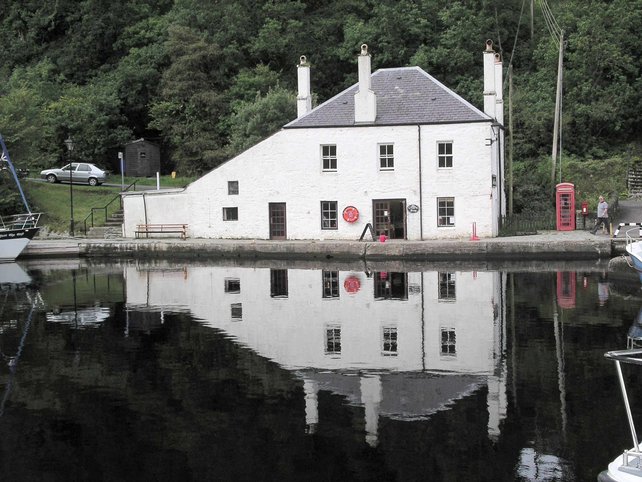 Crinan Canal Lock House. Location: Crinan canal at Crinan basin Technical data: Pentax Optio 555 digital camera.